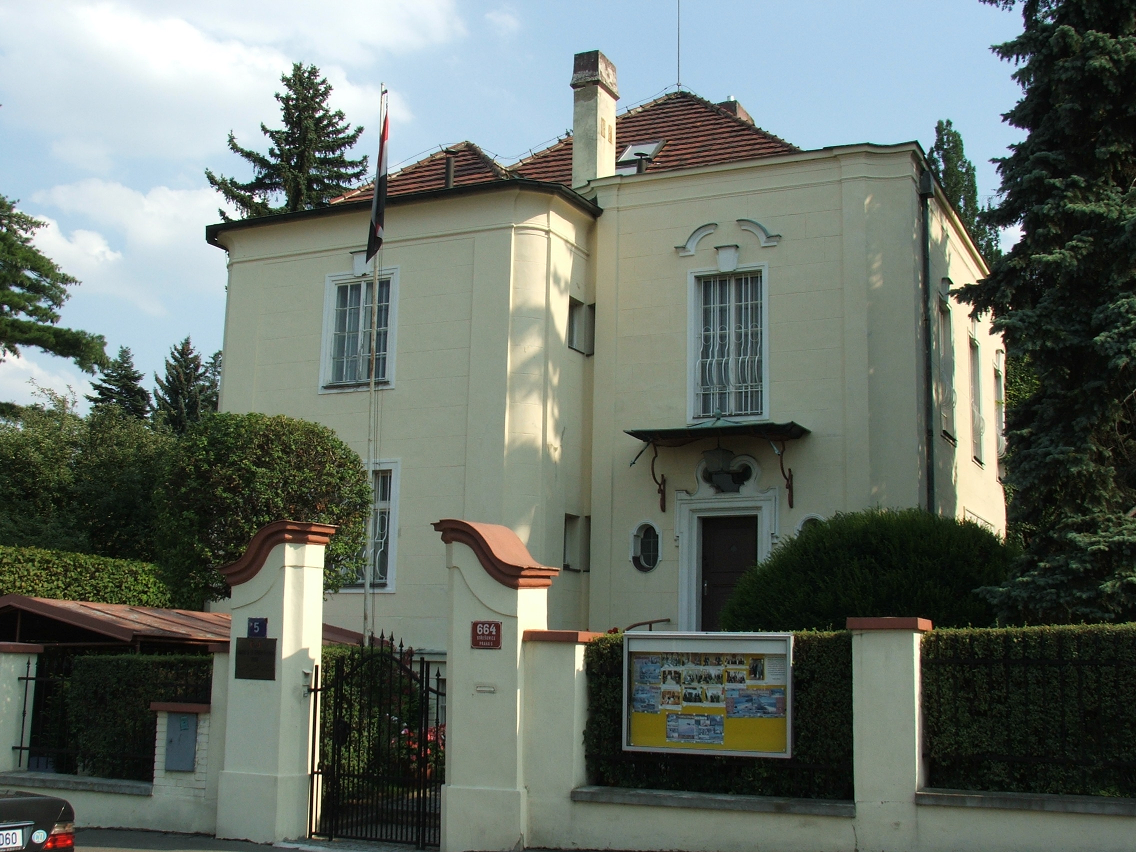 Embassy of Yemen in Prague - Střešovice, Czechia.